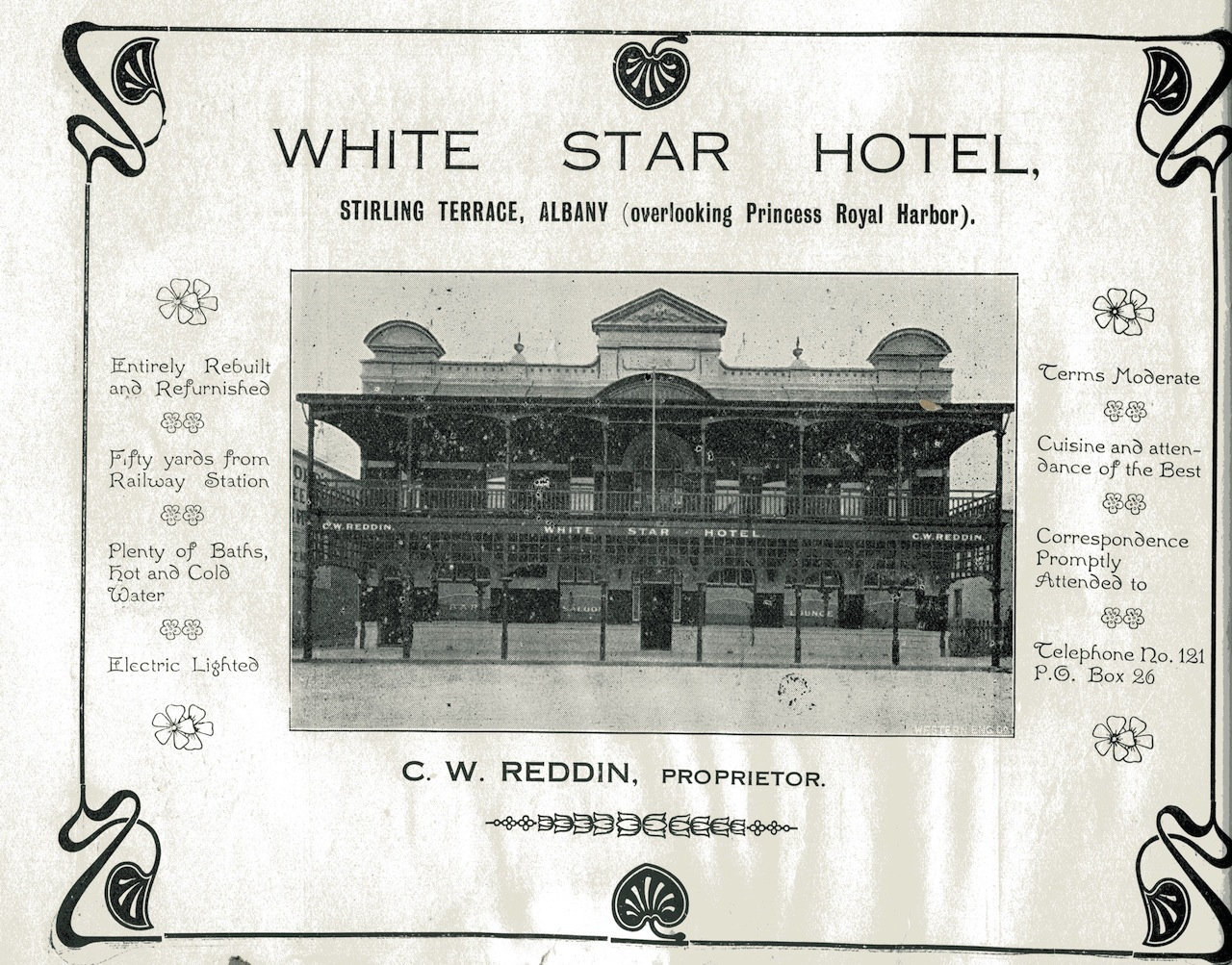 White Star Hotel advert in Alluring Albany 1912